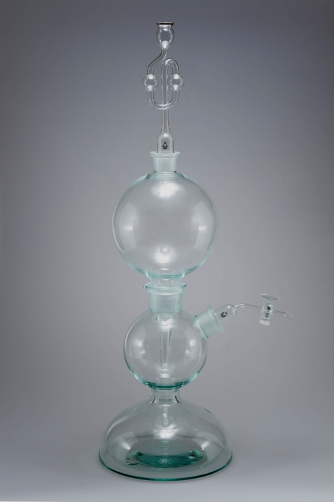 Genuine empty Kipp's apparatus, handmade from glass with stopcock and fermentation lock